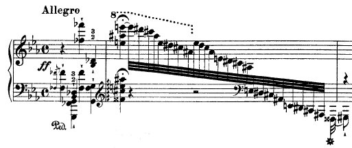 Excerpt from Liszt's Transcendental Etude 7 "Eroica"